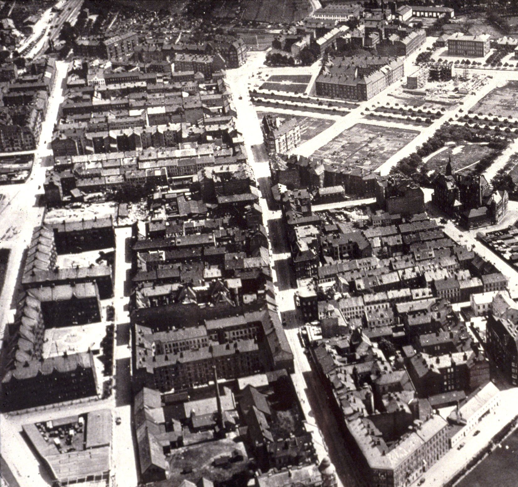 The street Östra Förstadsgatan in the city of Malmo about 1924.